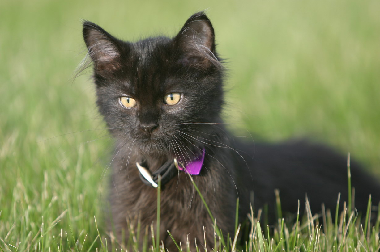 Black Persian Kitten - 5 months old